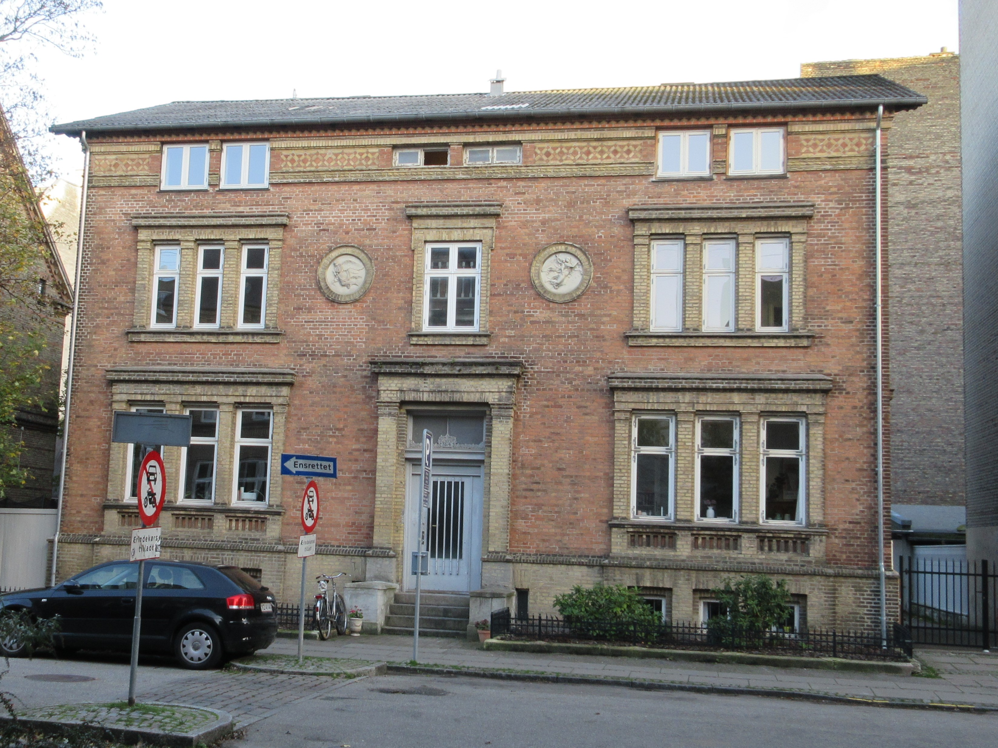 Sankt Knuds Vej 4 in Frederiksberg, Denmark